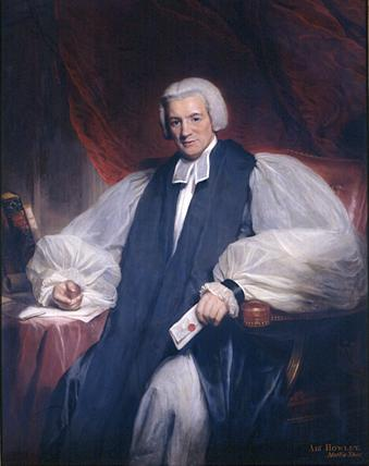 William Howley (1766-1848), Archbishop of Canterbury